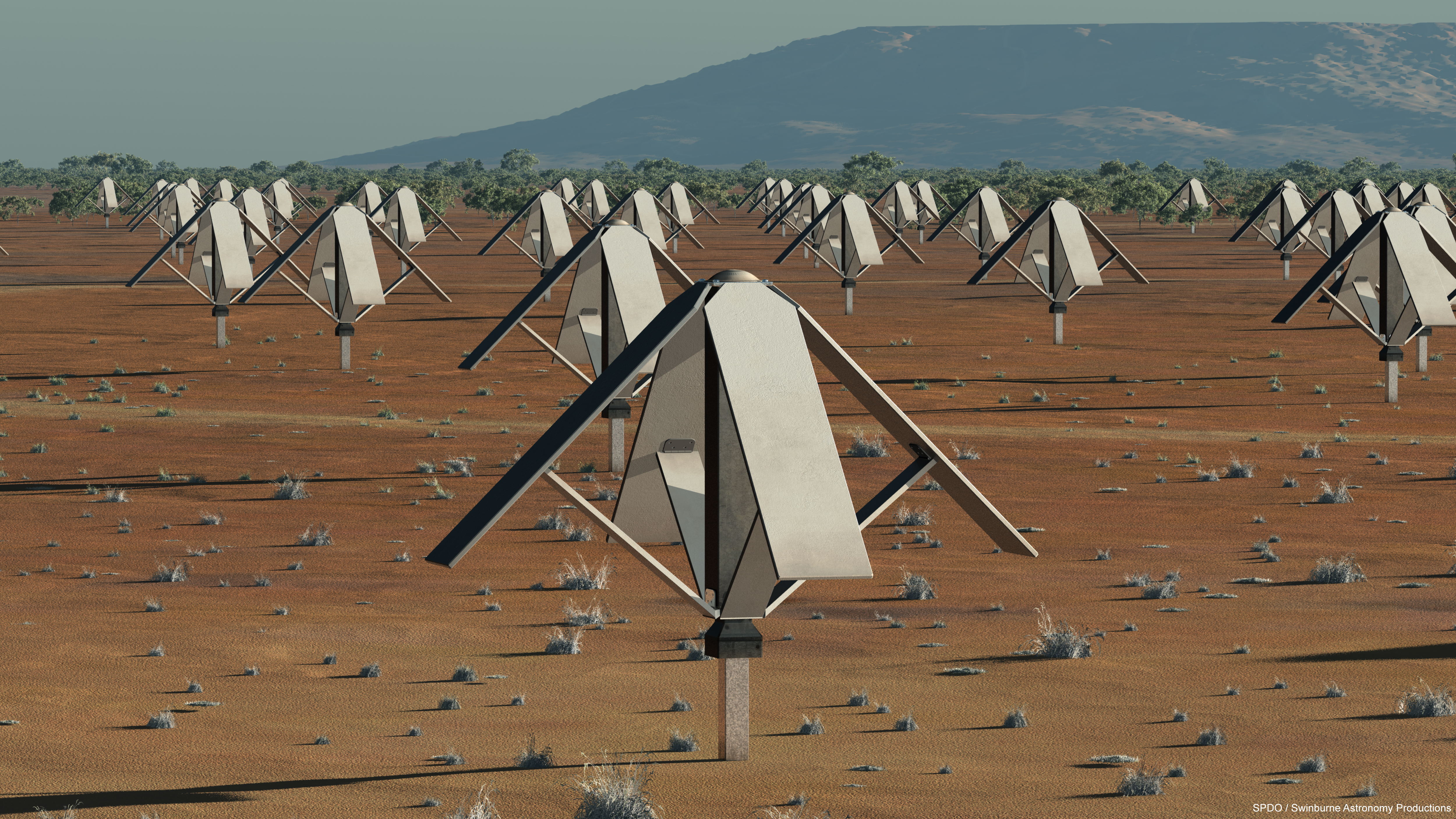 Artist's impression of a 100m diameter low frequency Sparse Aperture Array.